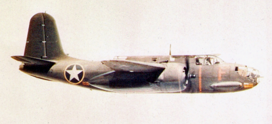 A U.S. Army Air Forces Douglas Boston III from the 15th Bombardment Squadron (Light) in flight in late 1942. The 15th BS was the first USAAF unit in action in Europe. The squadron was assigned to Eighth Air Force, arriving at RAF Grafton Underwood on 12 May, then to RAF Molesworth on 9 June. It was equipped with the British Boston III bomber, receiving their aircraft from No. 226 Squadron RAF. Starting in September, it started to receive the Douglas A-20C Havoc.